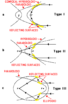 X-Ray telescope types as described by Wolters. In two papers in 1952, Hans Wolter described 3 different types of X-ray telescopes that could be built using grazing incidence mirrors. The papers are Wolter, H. (1952). "Glancing Incidence Mirror Systems as Imaging Optics for X-rays". Ann. Physik 10: 94. and Wolter, H. (1952). "A Generalized Schwarschild Mirror Systems For Use at Glancing Incidence for X-ray Imaging". Ann. Physik 10: 286..